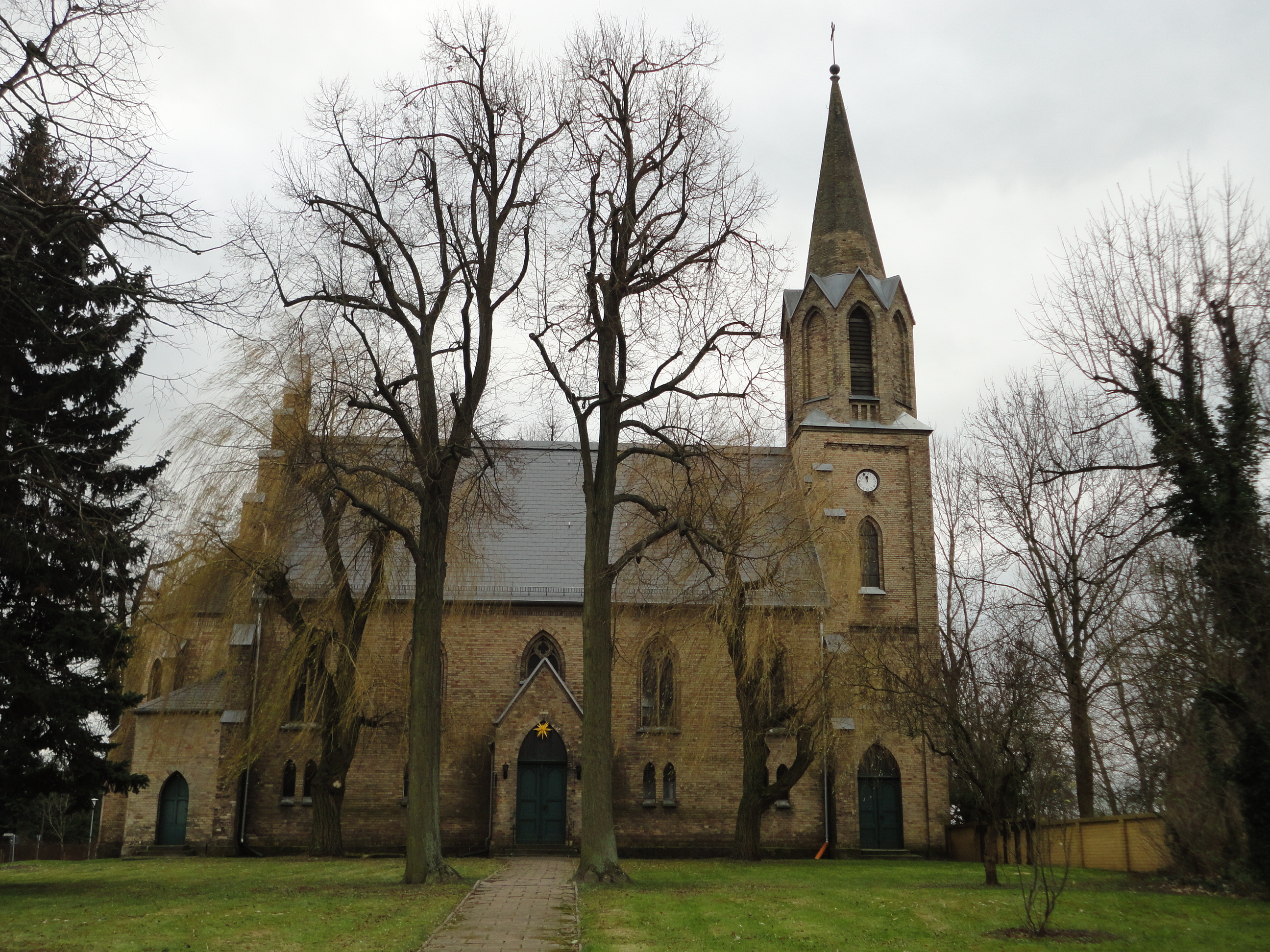 Northern view of Lentzke church, Fehrbellin municipality, Ostprignitz-Ruppin district, Brandenburg state, Germany